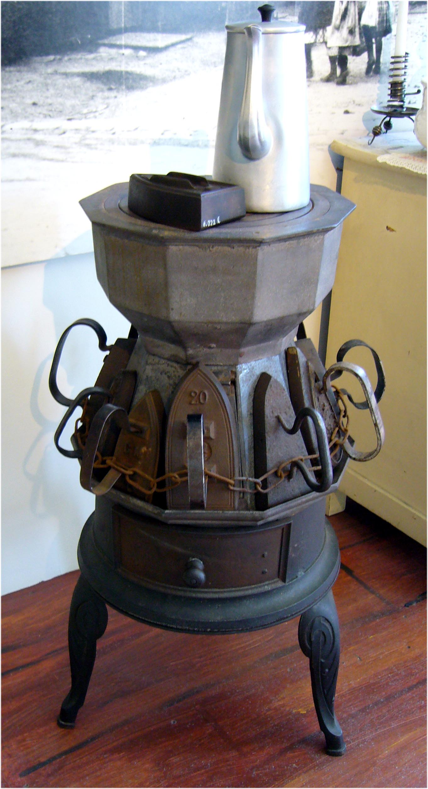 Gusseiserner Ofen mit Bügeleisen